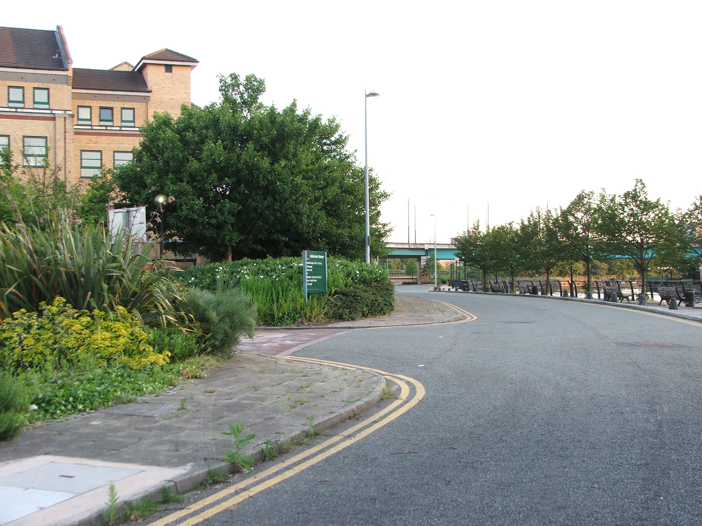 New office development at the historic Pomona Docks on the Manchester Ship Canal. Date: 2005-06-25